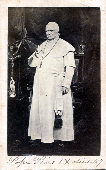 Portrait of Piux IX.